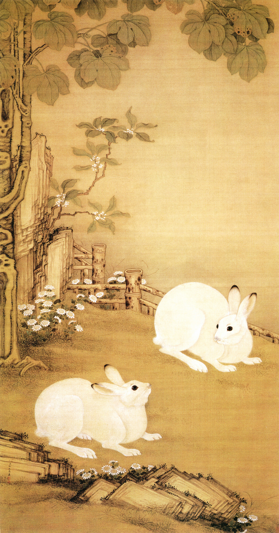 Two Rabbits under Chinese Parasol Tree, Leng Mei, Qing Dynasty, China, Palace Museum, Beijing.